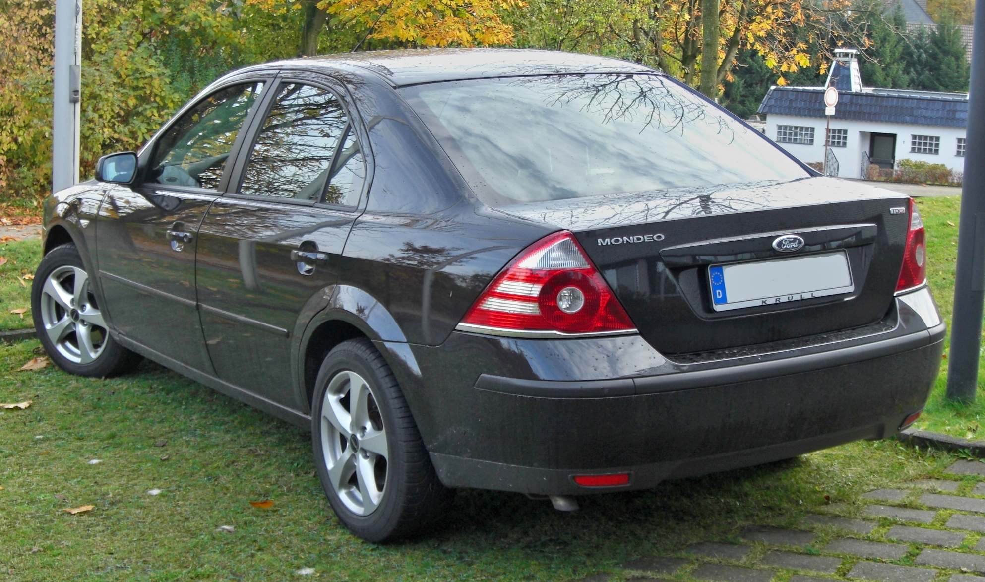 Description: Ford Mondeo II Modellpflege Source: Matthias Other Version(s)